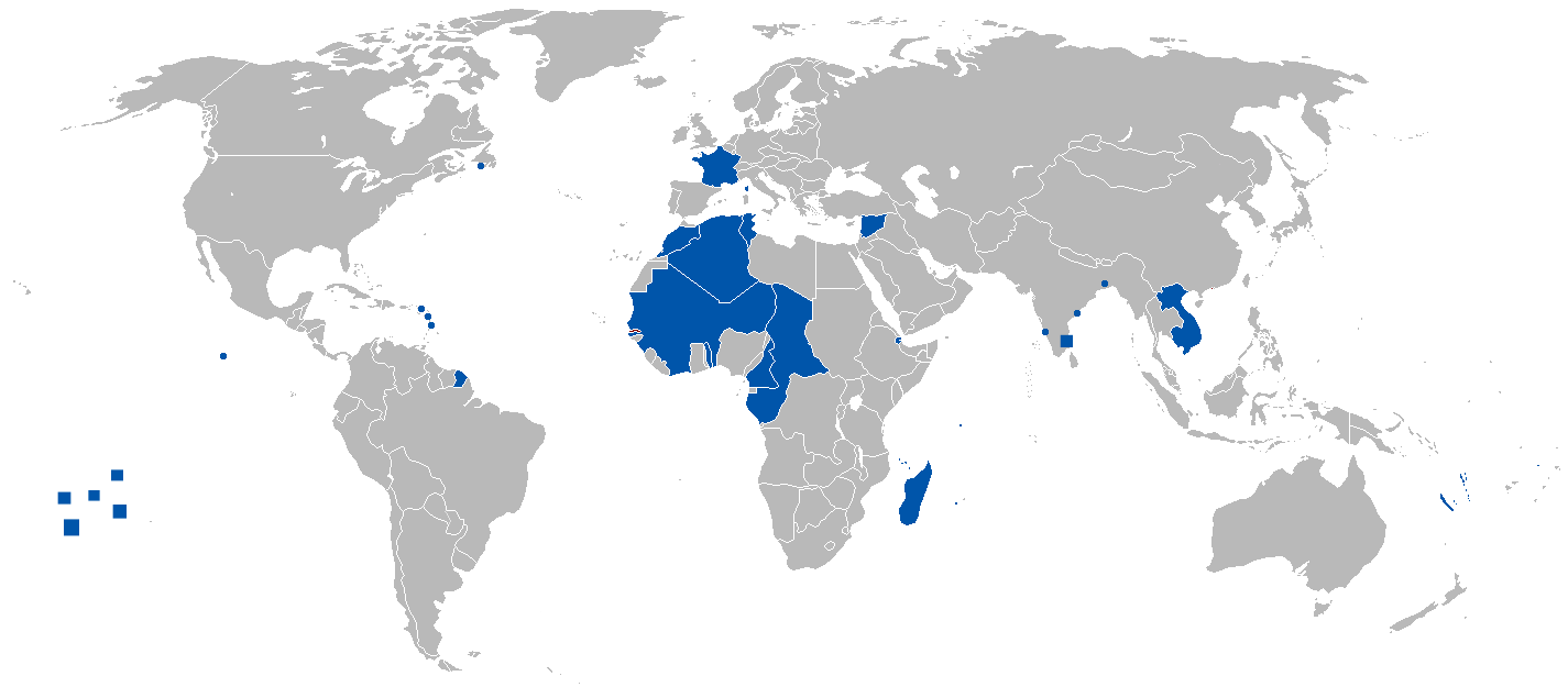 The French colonial empire in 1920